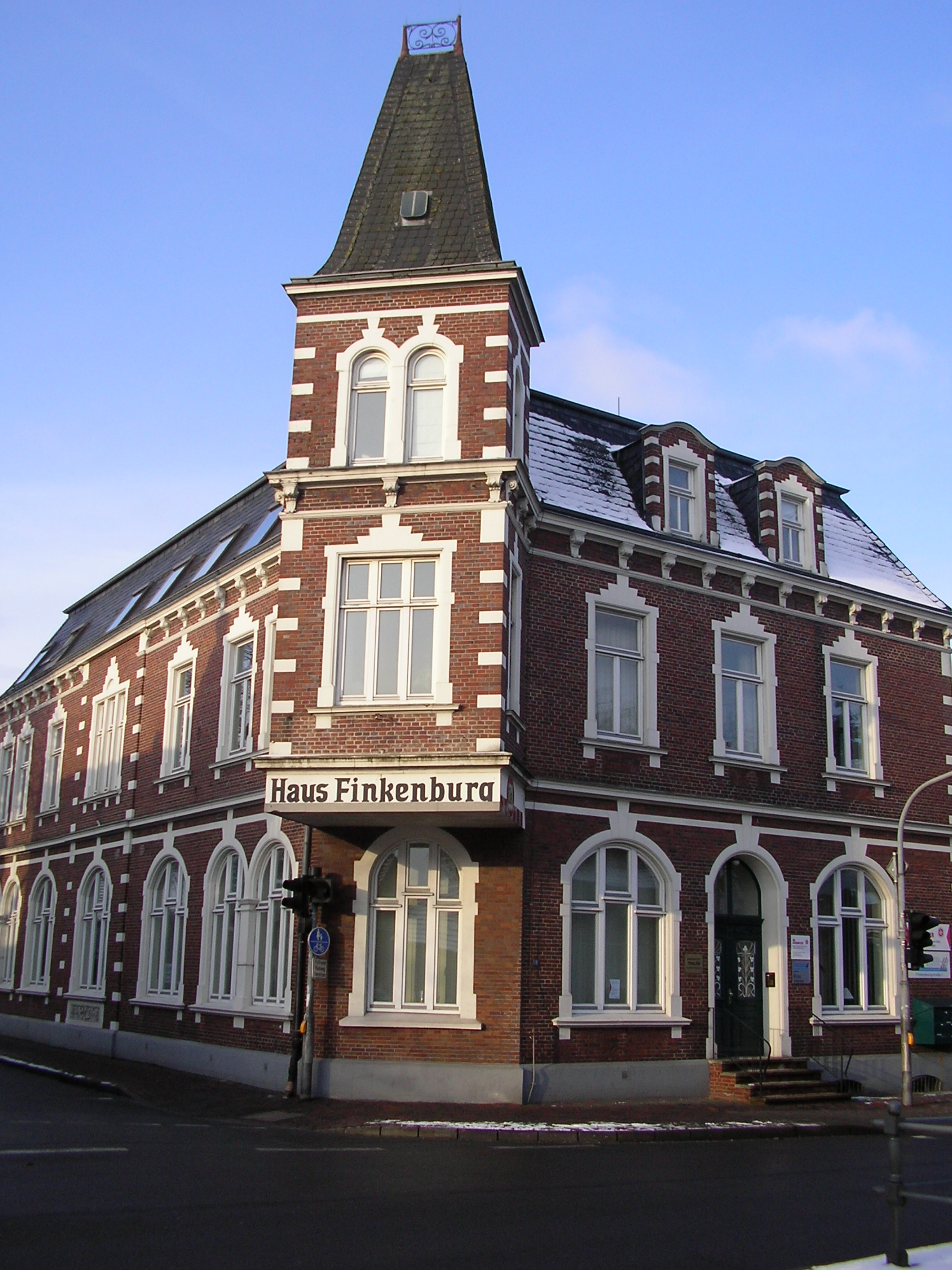 Building in Wittmund "Haus Finkenburg"